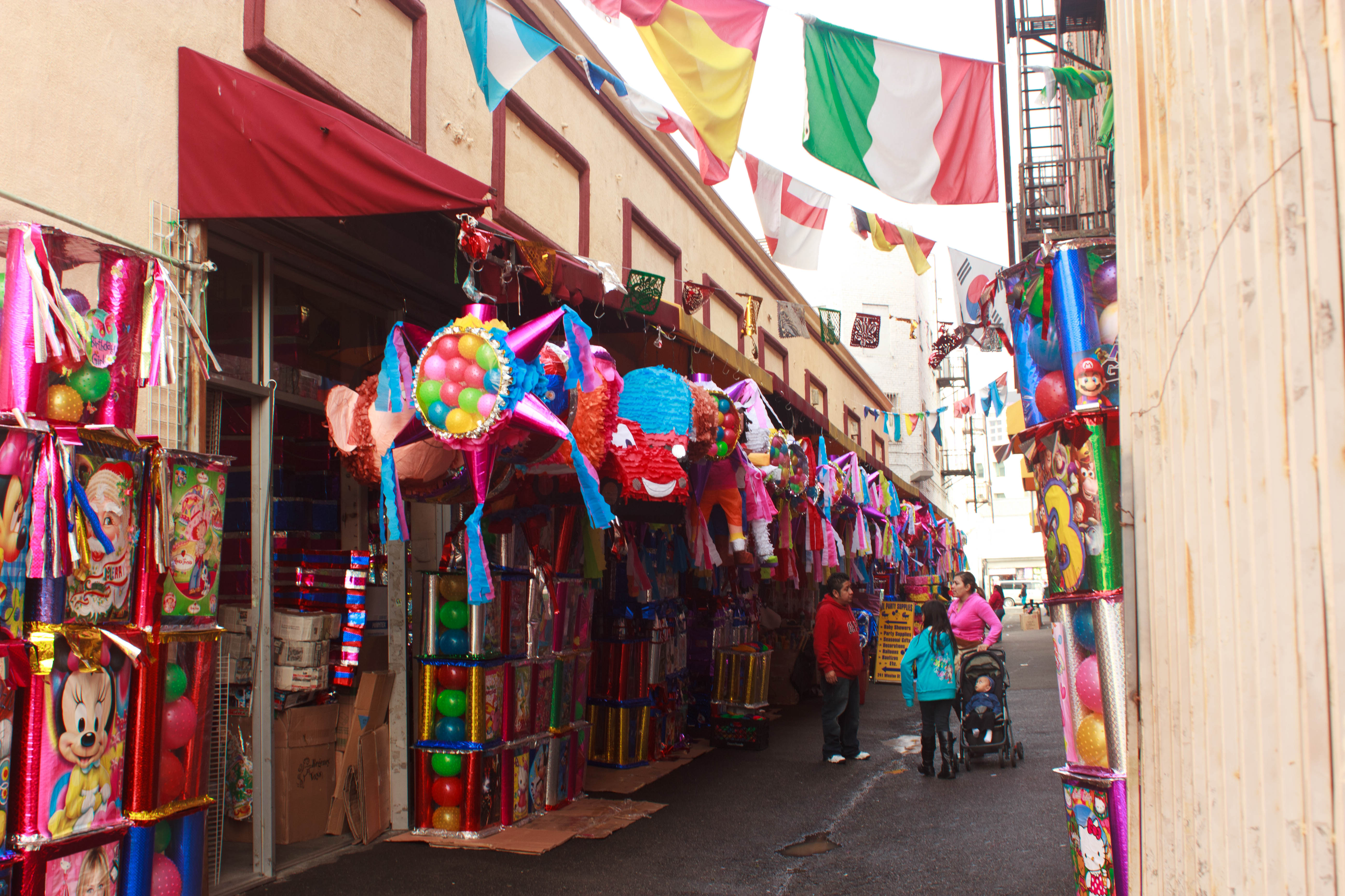 In LA's "Toy District"